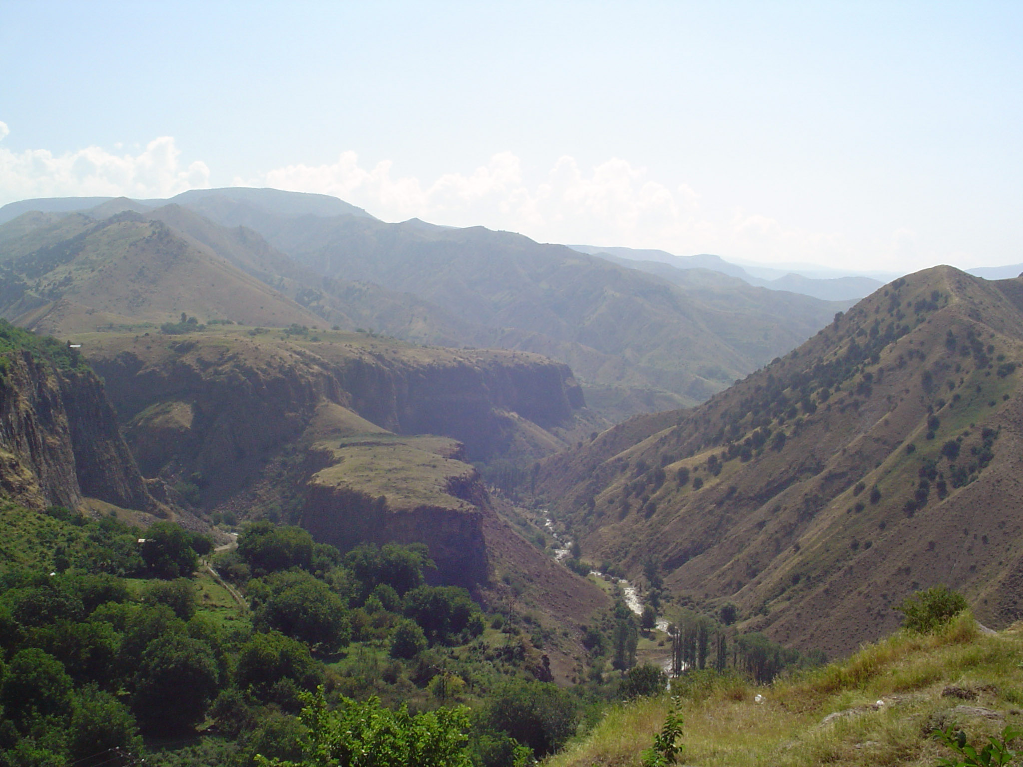 Azat river at Garni